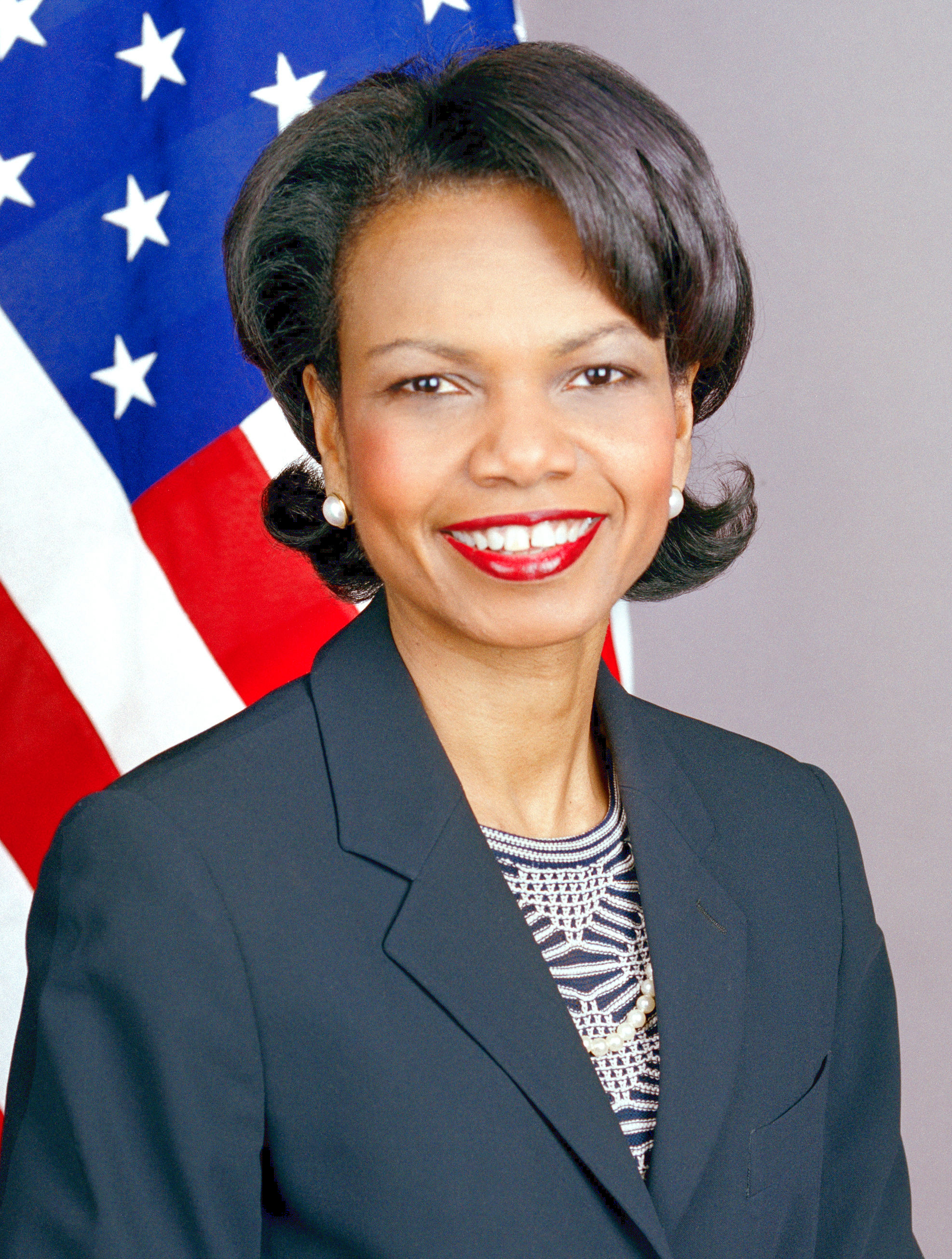 An official portrait of Condoleezza Rice. Contrast enhanced from State department version to compensate for slight light overexposure.